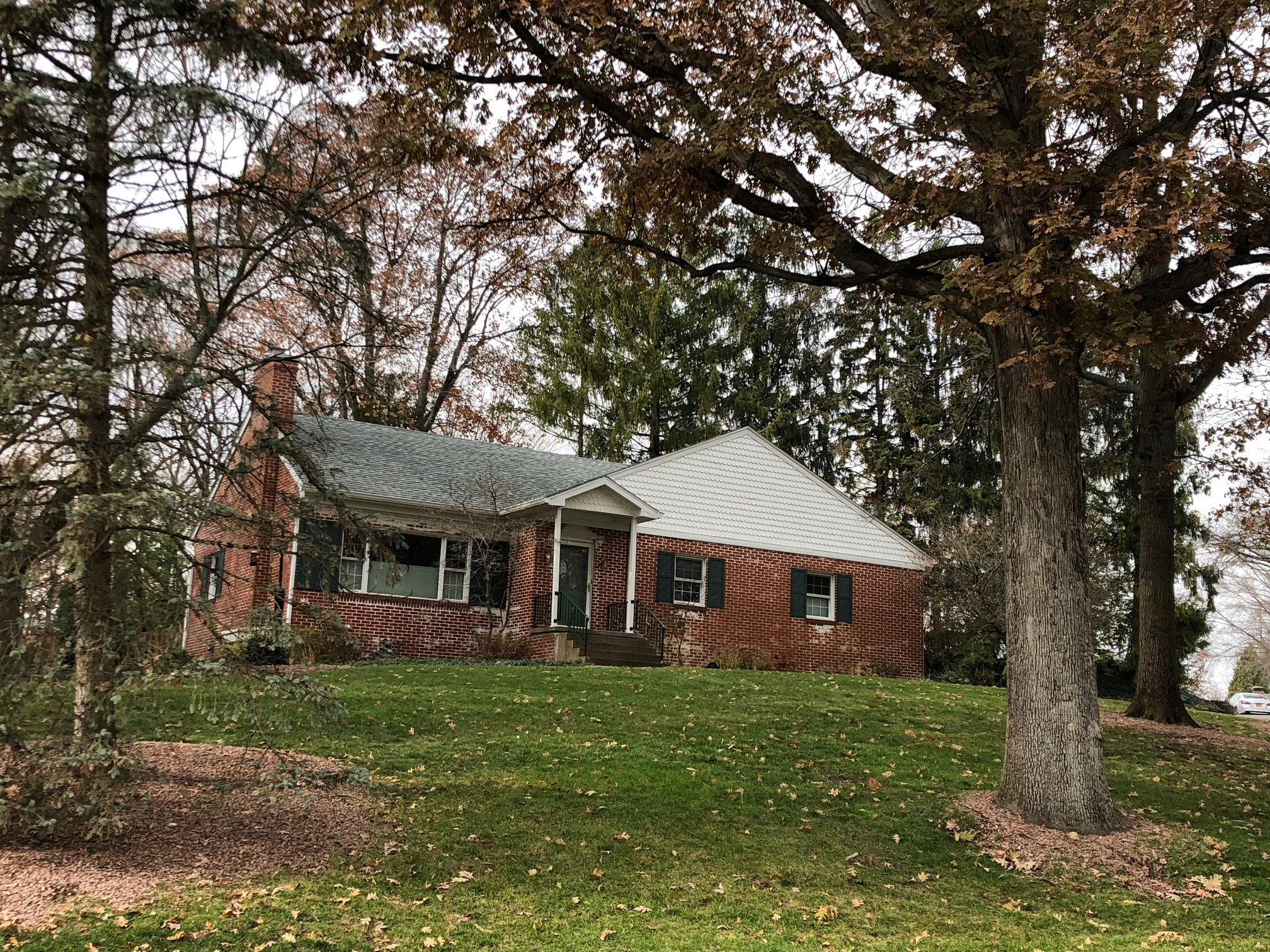 House at 801 Carrolton Blvd which was built in 1951 by Maurice J. Zuccrow. Zucrow and his family lived in the house until his retirement from Purdue.